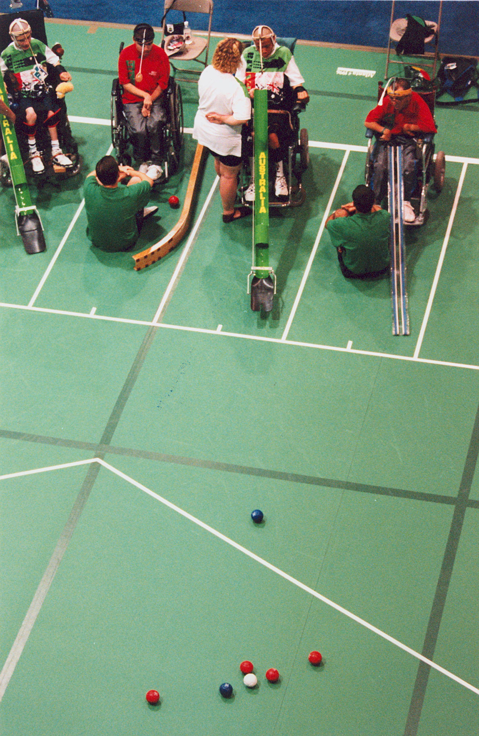 Australian boccia players Kris Bignall (far left) and Tu Huyhn (second from right) on their way to a bronze medal in the C1 WAD ramps pairs event at the 1996 Atlanta Paralympic Games